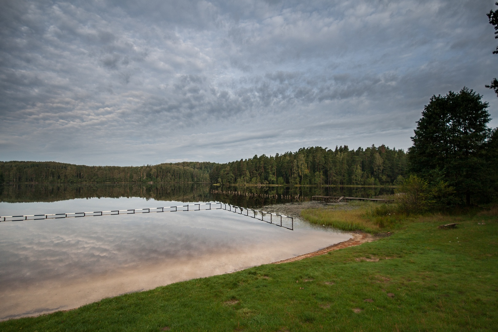 Geluva lake (Siauliai district)